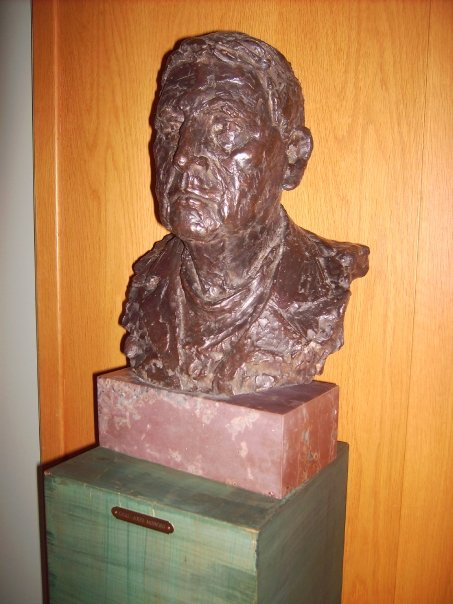 Bronze portrait bust by Britt-Marie Jern of the swedish archeologist Carl Axel Moberg (1915-1987), on the Department of Archaeology & Ancient History, Gothenburg. Professor of archeology at Gothenburg University, Sweden.